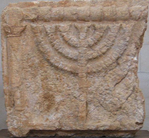 Stone Lintels Decorated with the Seben-Branched Menora, Synagoge at Eshtemoa (Southern Hebron hill region), 3rd-4th century CE.